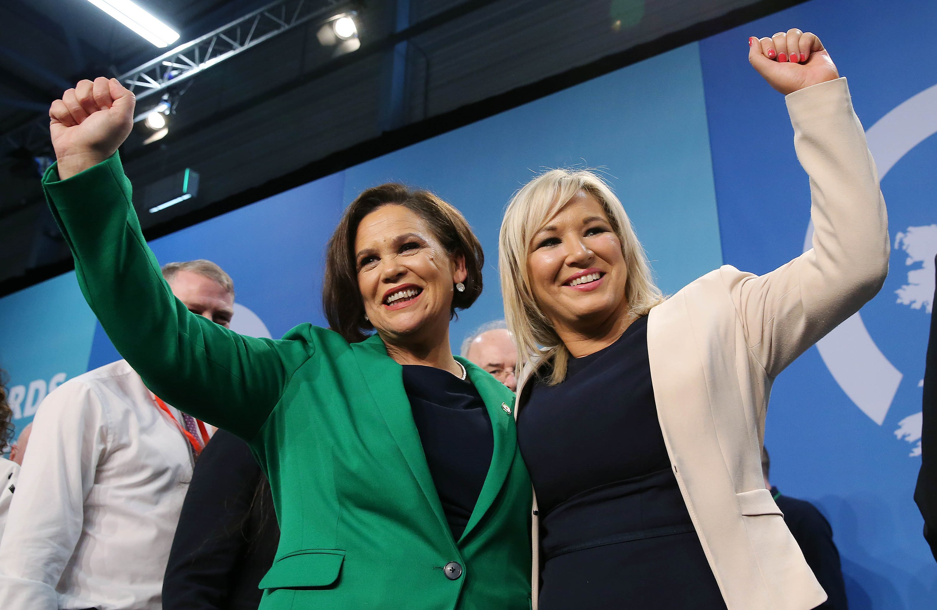 Mary Lou McDonald (Left) and Michelle O’Neill (right) at Ard Fheis (2018)